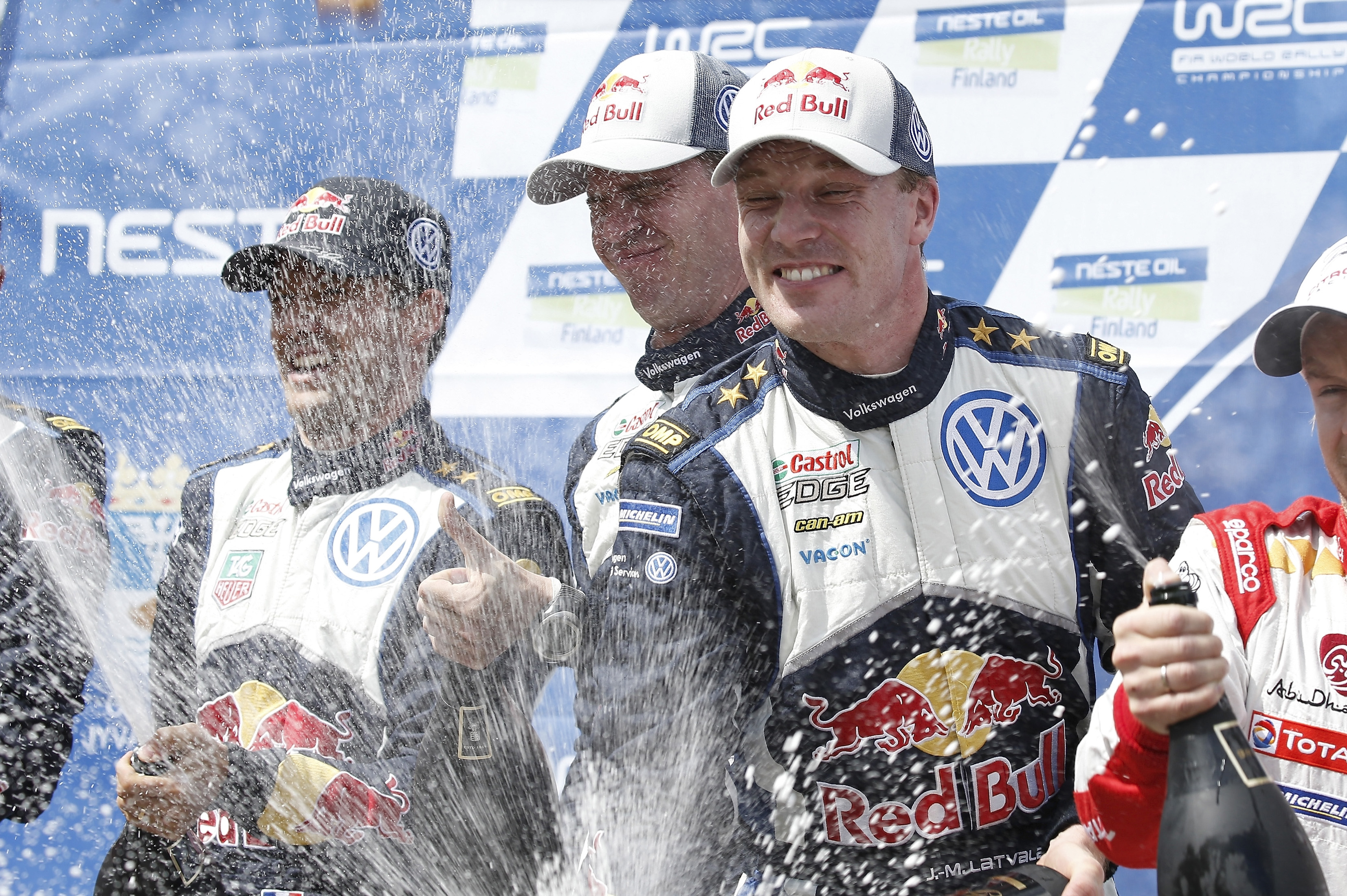 Jari-Matti Latvala (right) wins the 2015 Rally Finland. To the left is Latvalas's co-driver Miikka Anttila and teammate Sébastien Ogier.